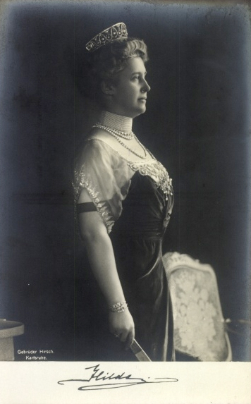 Grand Duchess of Hilda of Baden (1864-1952), wearing her tiara.